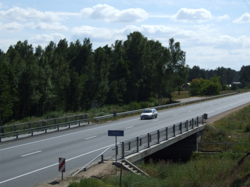 Bridge over Lilaste River at the Via Baltica, Latvia